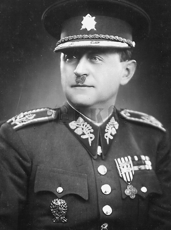 Vladimír Kajdoš (1893-1970). Czech politician.